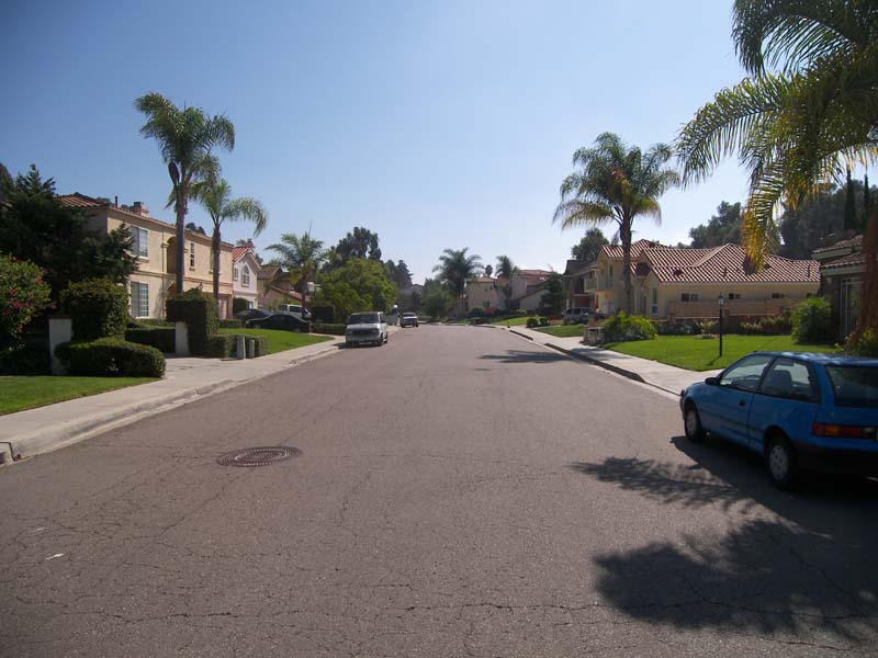 A typical neighborhood in east Chula Vista. My own work.